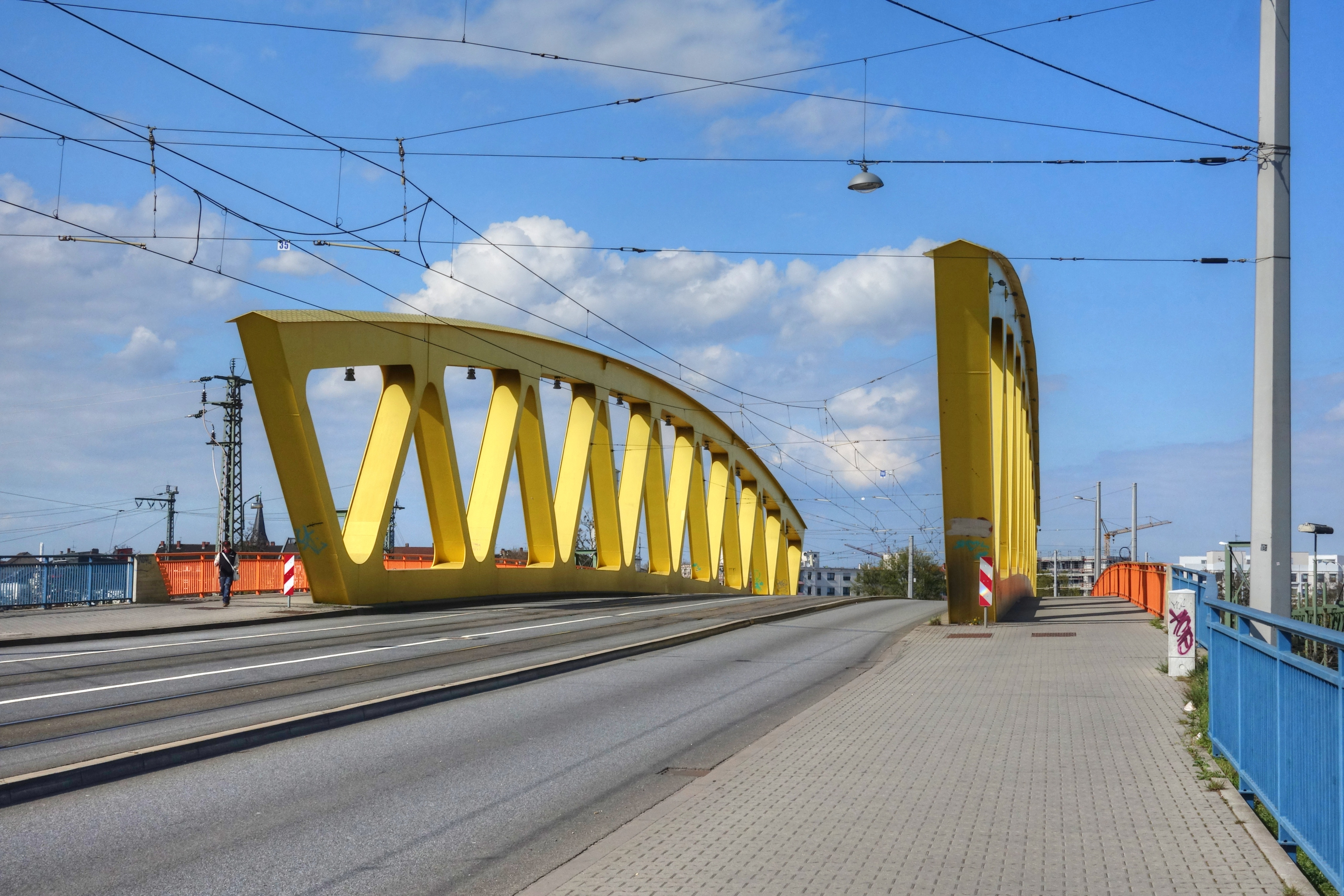 Mannheim, Neckarauer Übergang, bridge, view from Almenhof/Neckarau